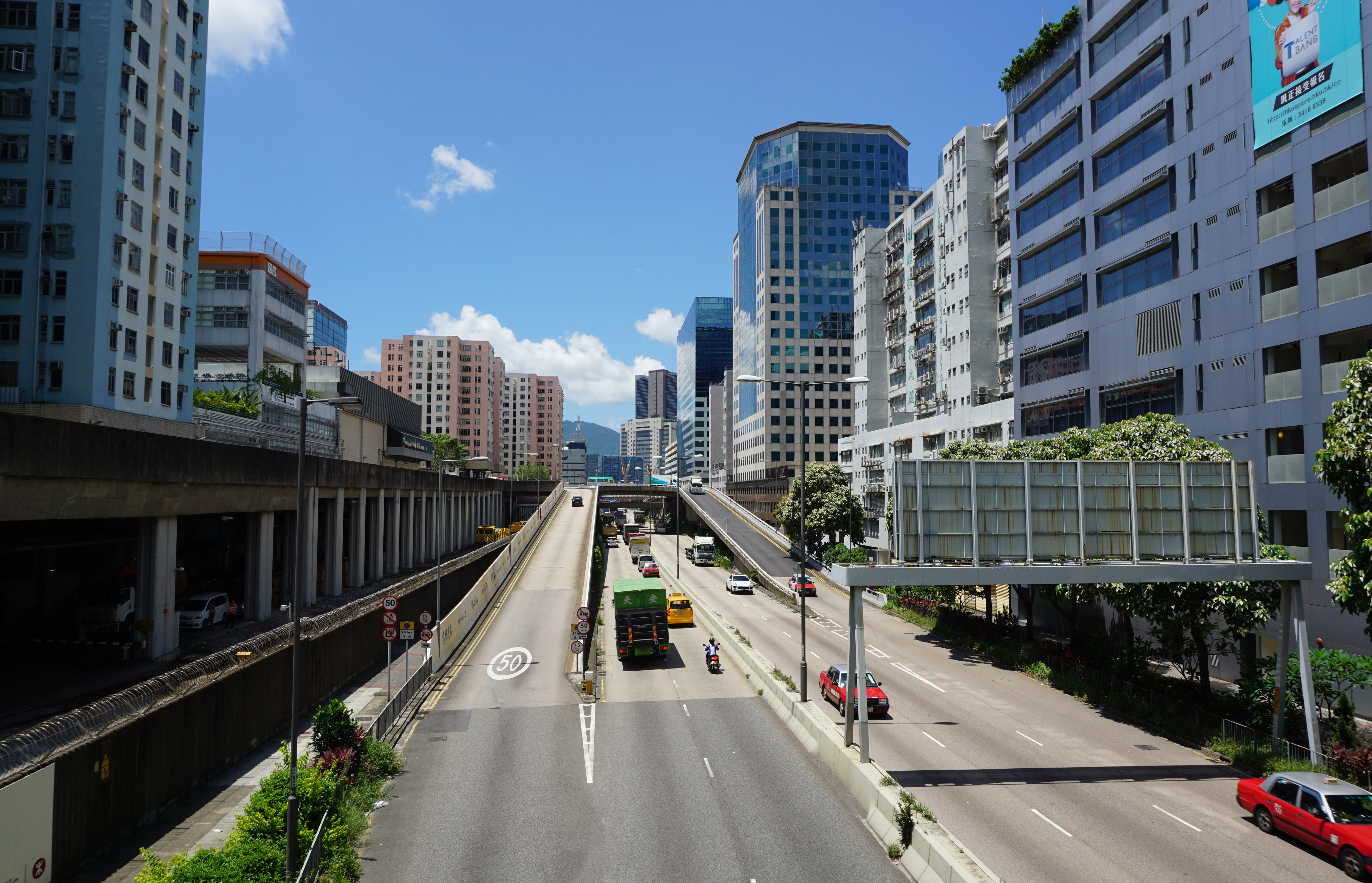 Wai Yip Street in Kowloon Bay, Hong Kong.